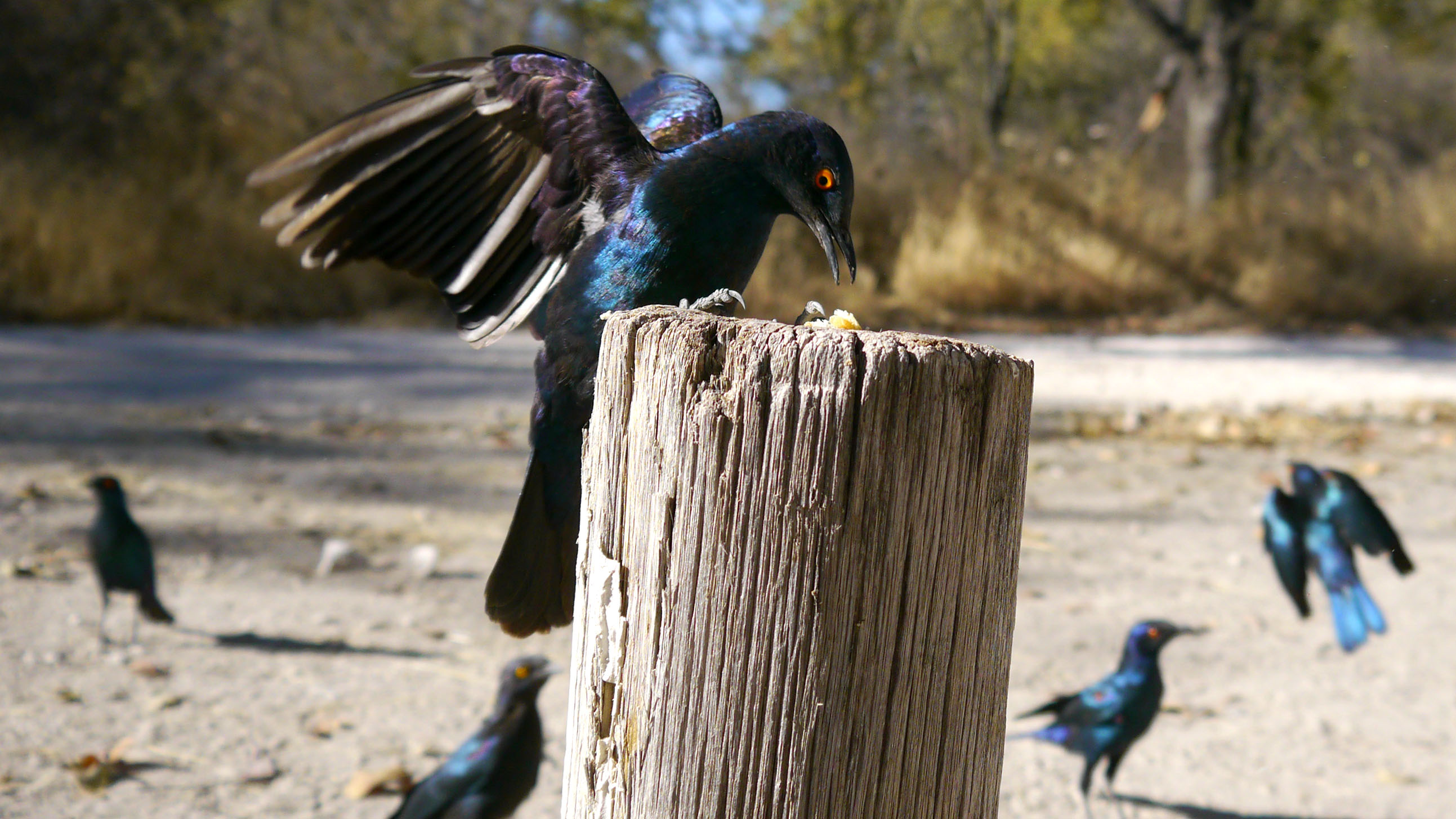 Lamprotornis nitens